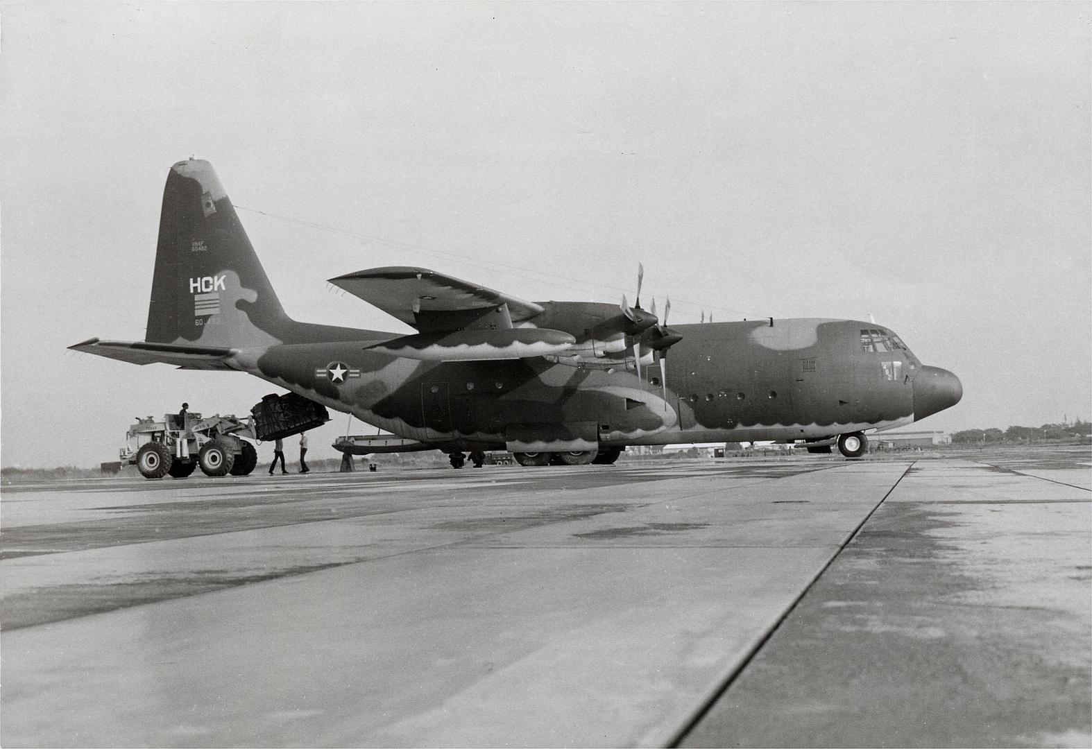 Black and White picture of a C-130A of the VNAF during the Vietnam War